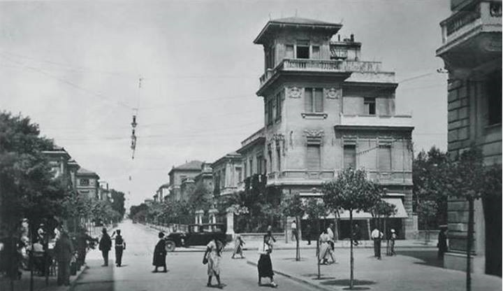 Via-regina-elena-palazzo-ciaranca